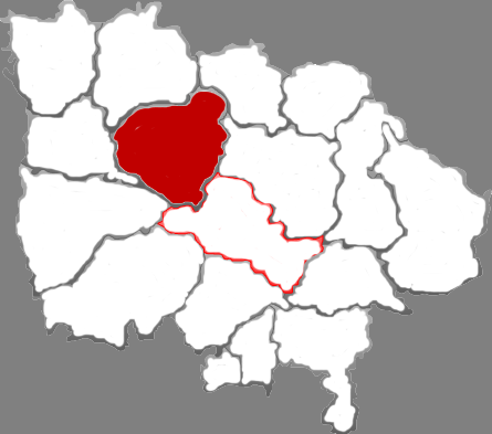 Location of Pu county in Linfen City, China